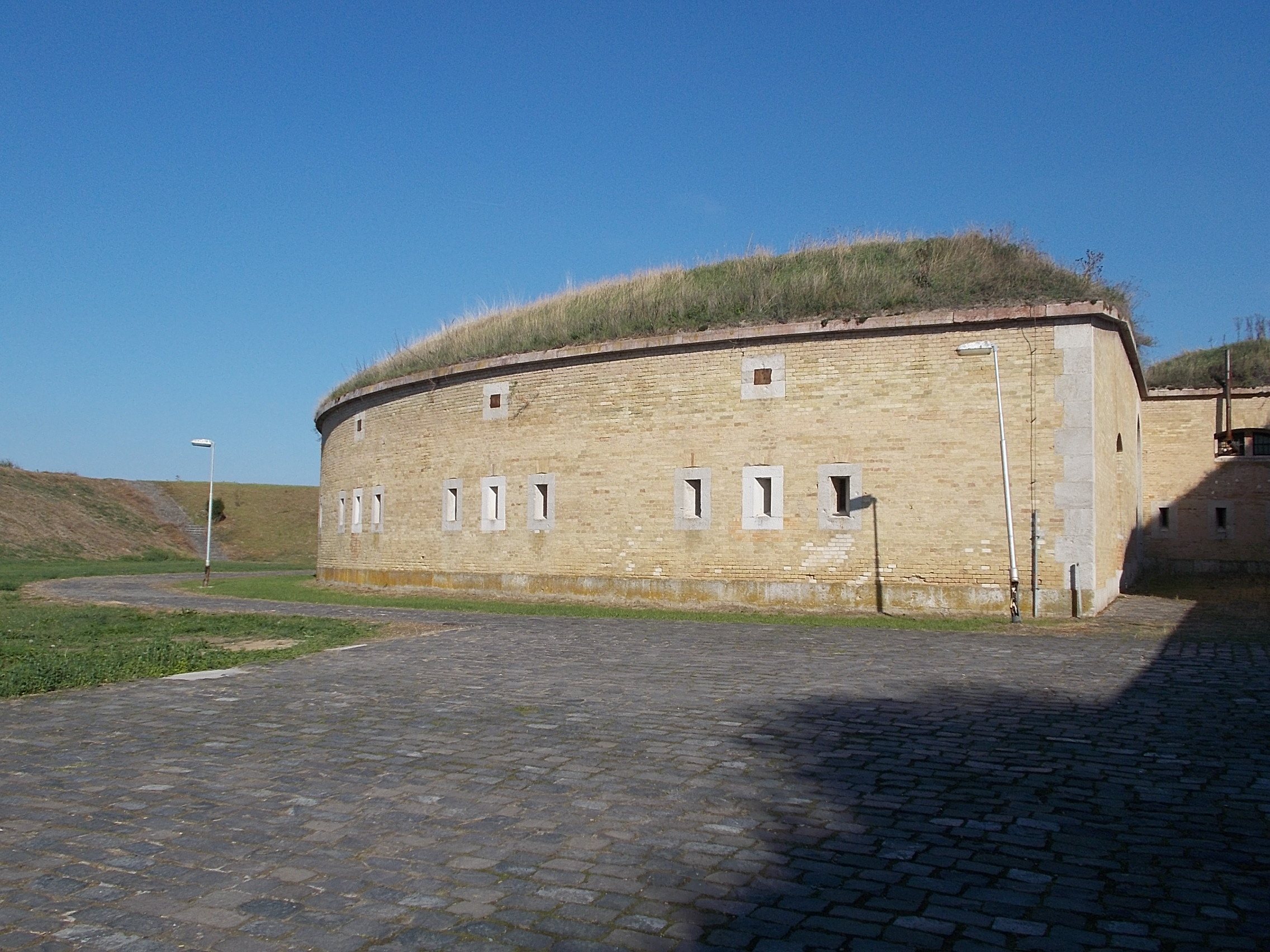 North Rondell of Bastion VI., Vaah Line, Komárno Fortress. - Okružná Street, Komárno, Slovakia.